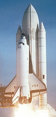 Launch of the Space Shuttle Columbia, STS-1 on April 12, 1981.